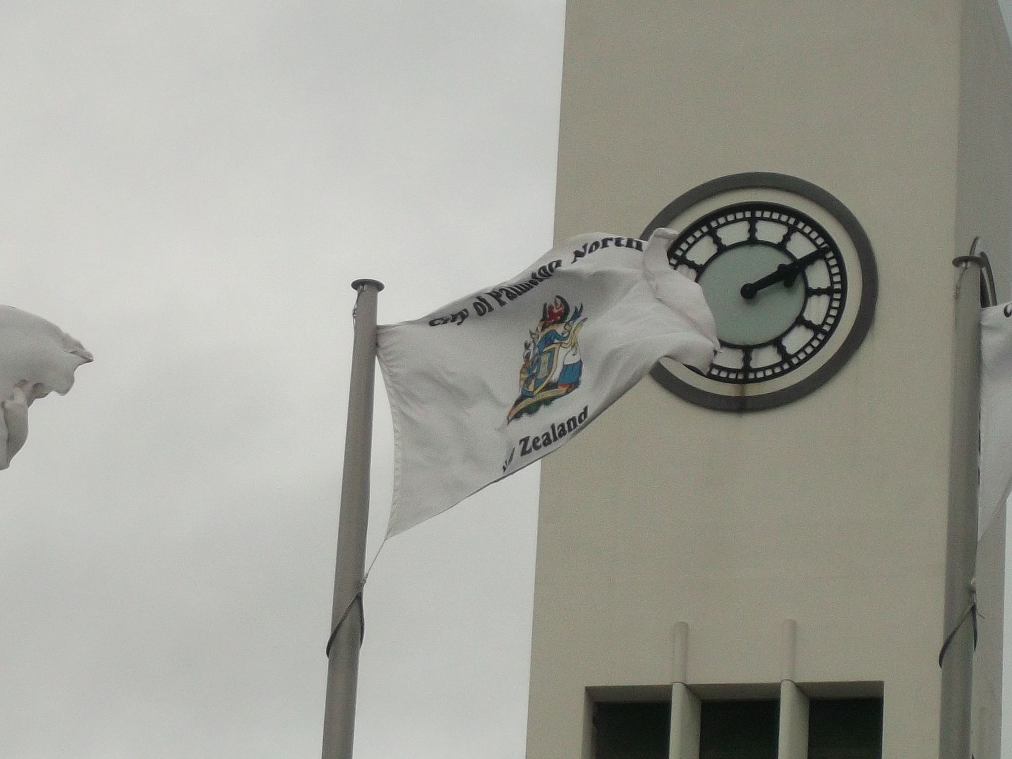 The flag of Palmerston North, New Zealand displayed in the city square.